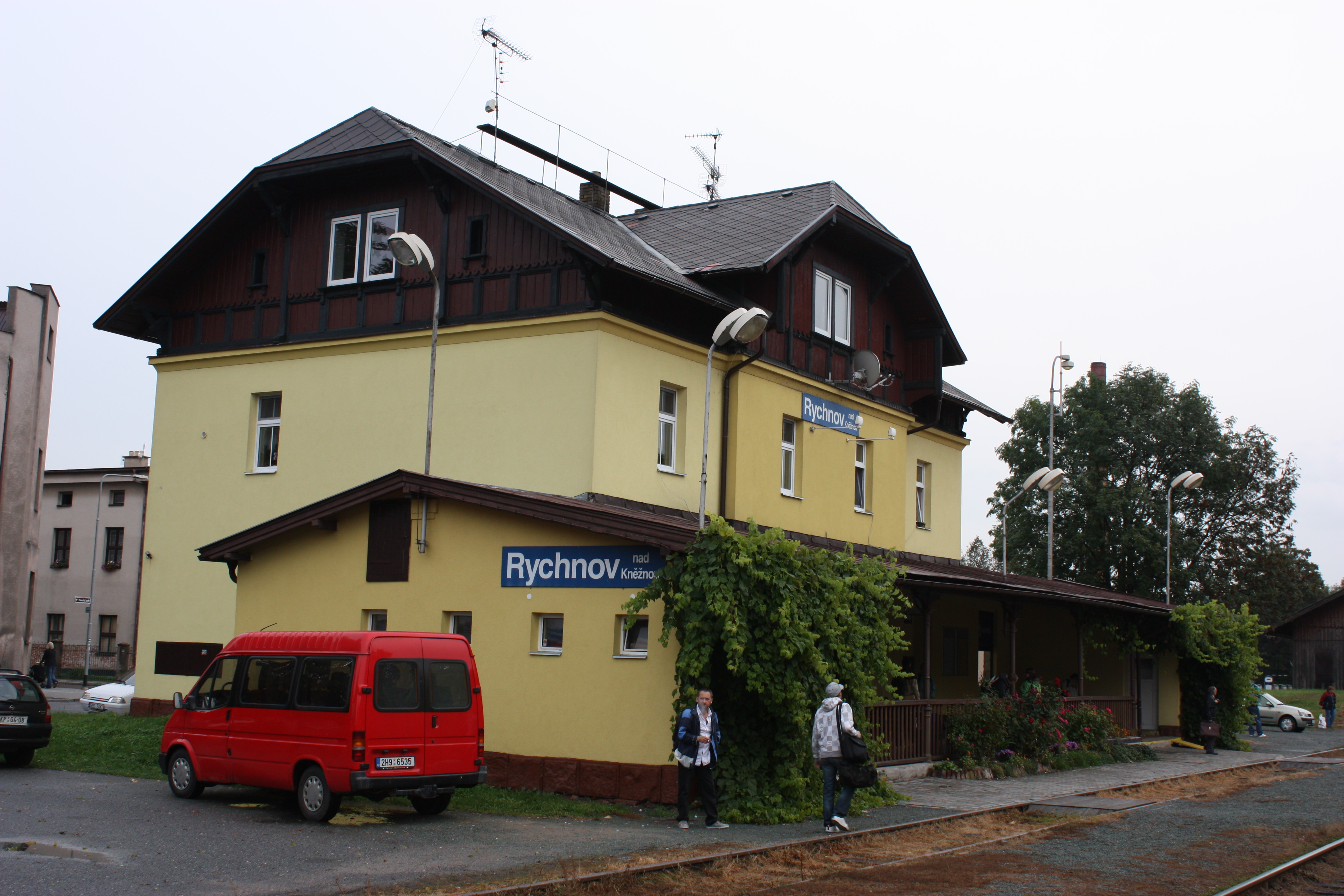 Railway station in Rychnov nad Kněžnou, Czechia.